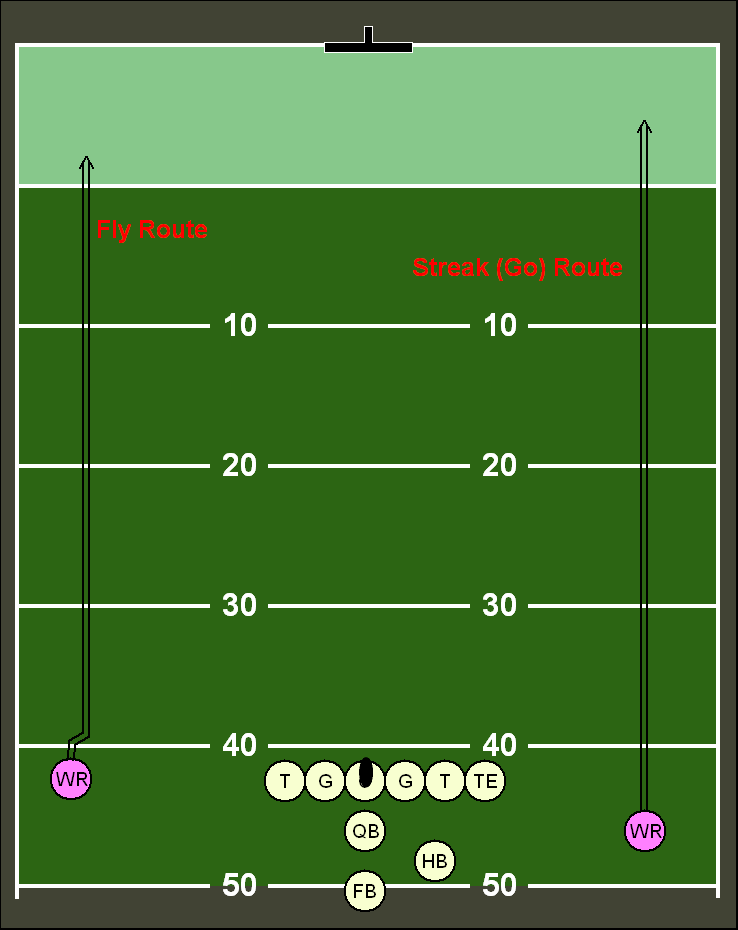 fly route